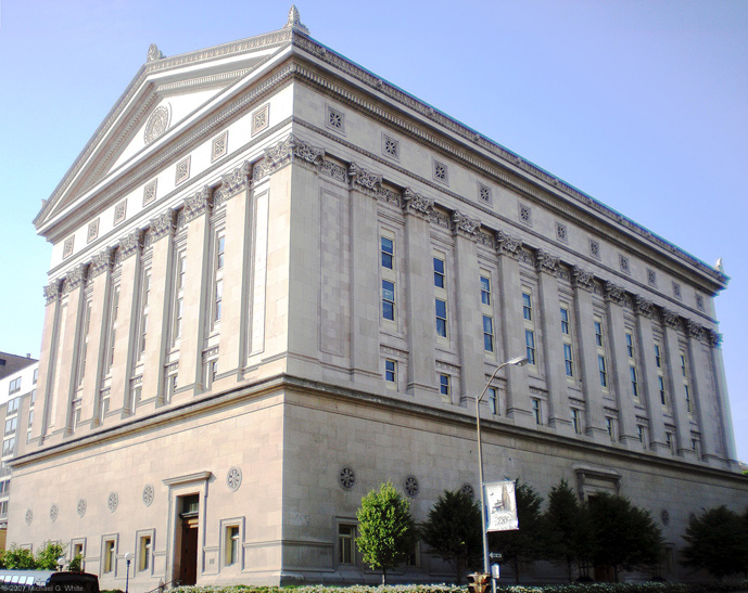 The Alumni Hall at the University of Pittsburgh. photo by Michael G White